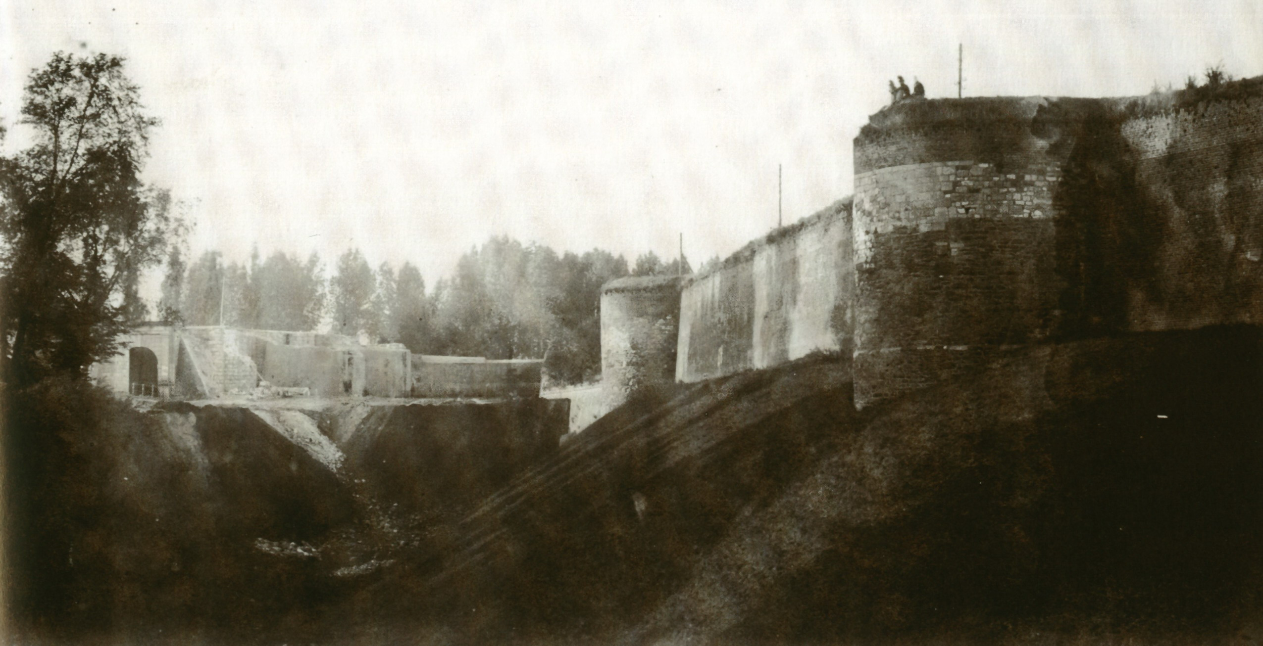 Maastricht, the Netherlands. View of the outer gate of Brusselsepoort (Brussels Gate, left) and the medieval city wall of Maastricht (right), shortly before they were demolished in 1868-1870. Photograph by Theodor Weijnen, July 1868, reproduced in: Ingrid Evers, and others, Geslechte Vestingwerken van Maastricht. Maastricht, 2005, page 41.